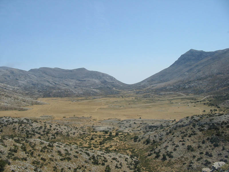 Nida’s Plateau in Creta, Greece